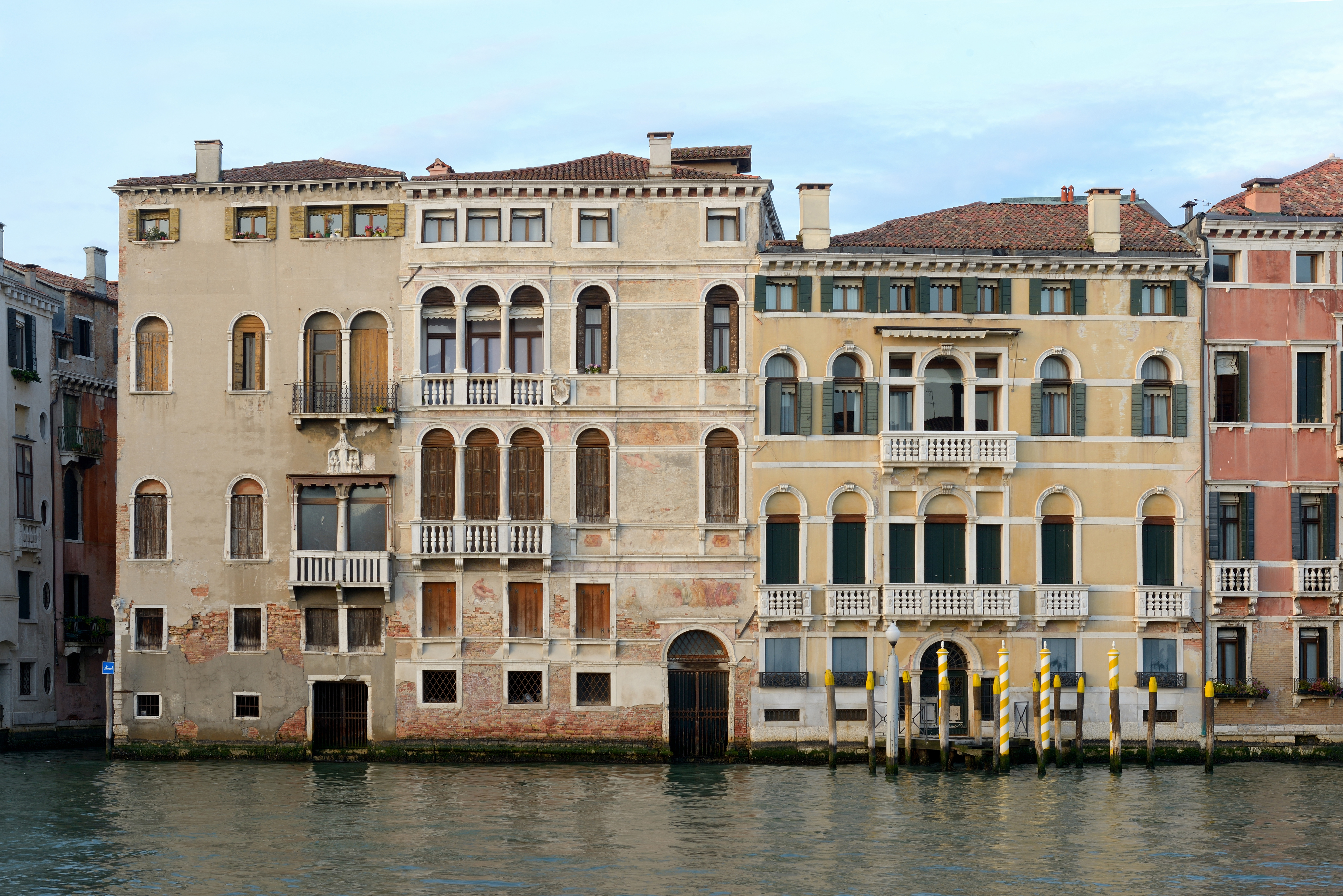 Palazzetto Barbarigo and Palazzo Zulian Priuli on the Canal Grande in Venice.